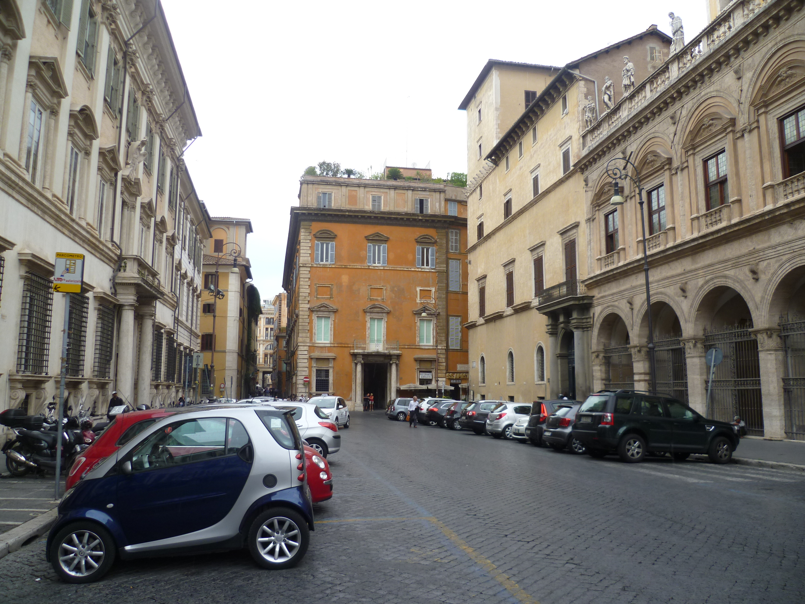 Palazzo Muti and Basilica dei Santi Apostoli, Rome